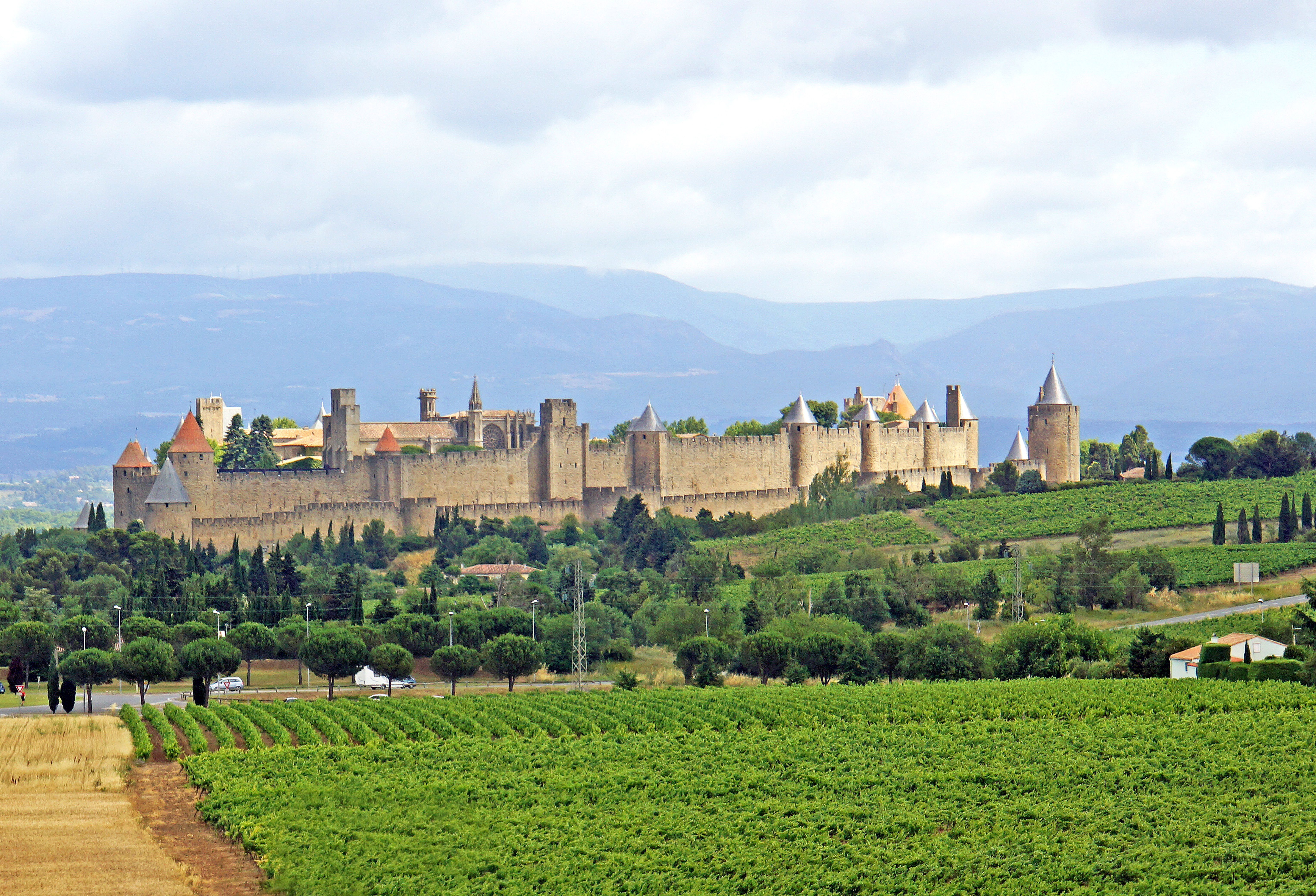 PLEASE, NO invitations or self promotions, THEY WILL BE DELETED. My photos are FREE to use, just give me credit and it would be nice if you let me know, thanks. Bus shot..... Carcassonne is a fortified French town. The fortified city itself consists essentially of a concentric design with two outer walls with 53 towers and barbicans to prevent attack by siege engines.